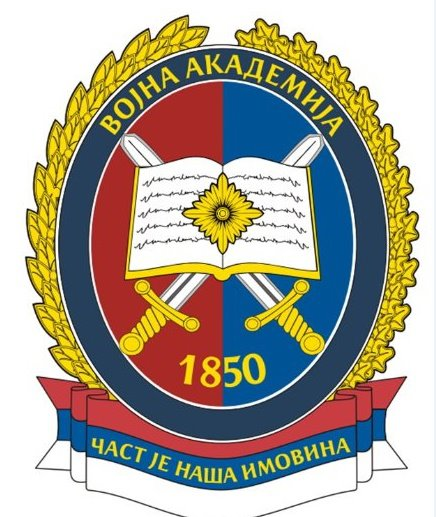 New logo of the Military Academy Belgrade, Serbia